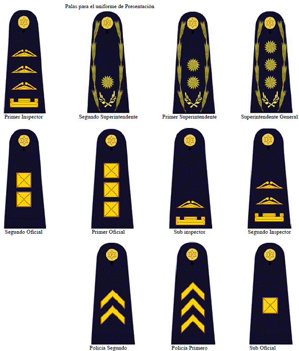 Rank insignia of the Police of the Federal District of Mexico.